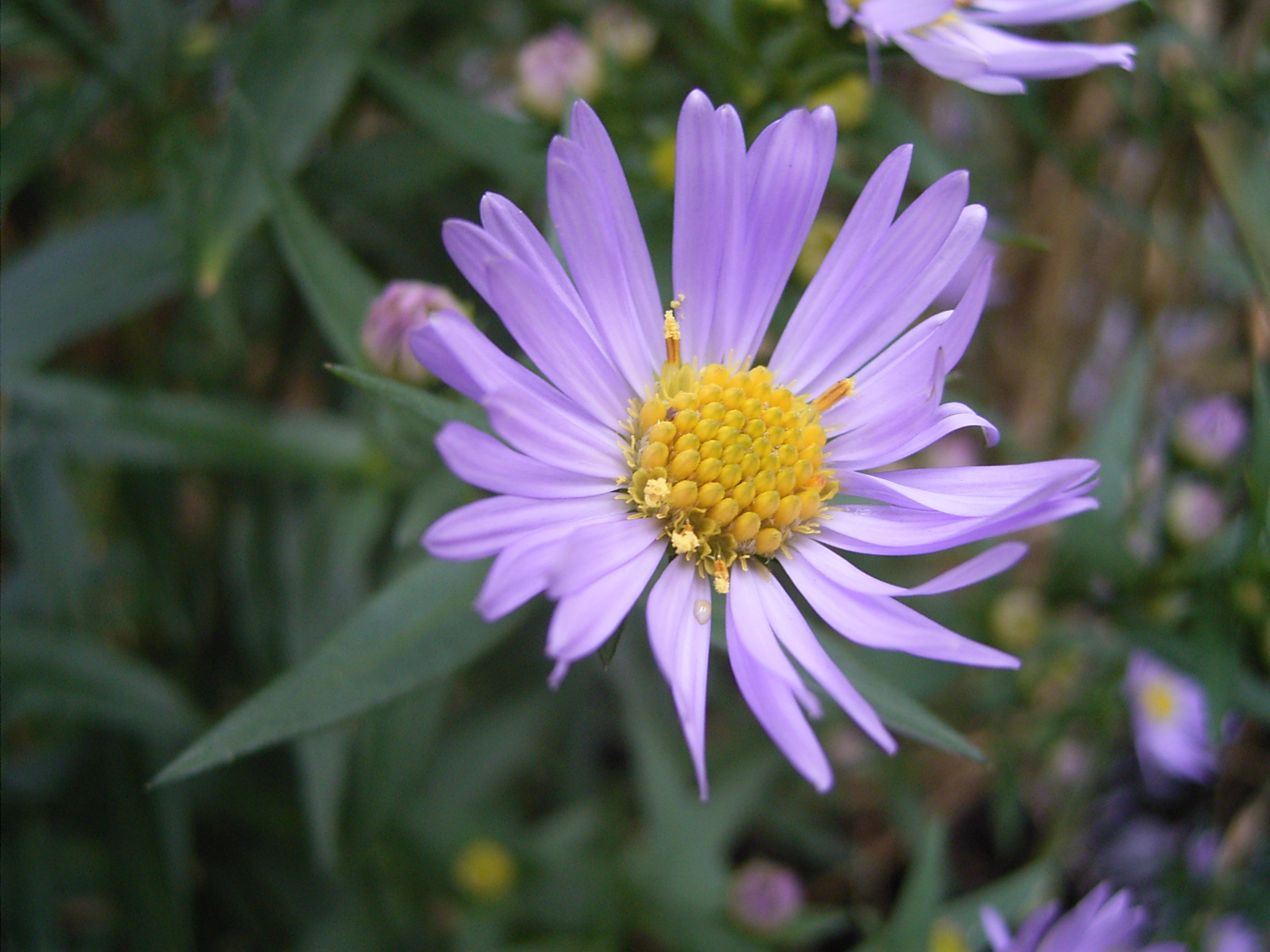 New York aster (Symphyotrichum novi-belgii) at the Florence Nightingalepark, The Hague, October 2004